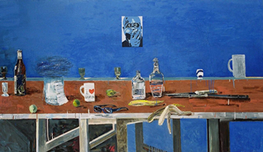 "Still life. Radio-gramophone" oil painting, painted in 2000 by Marina Skugareva, a Ukrainian contemporary art painter.